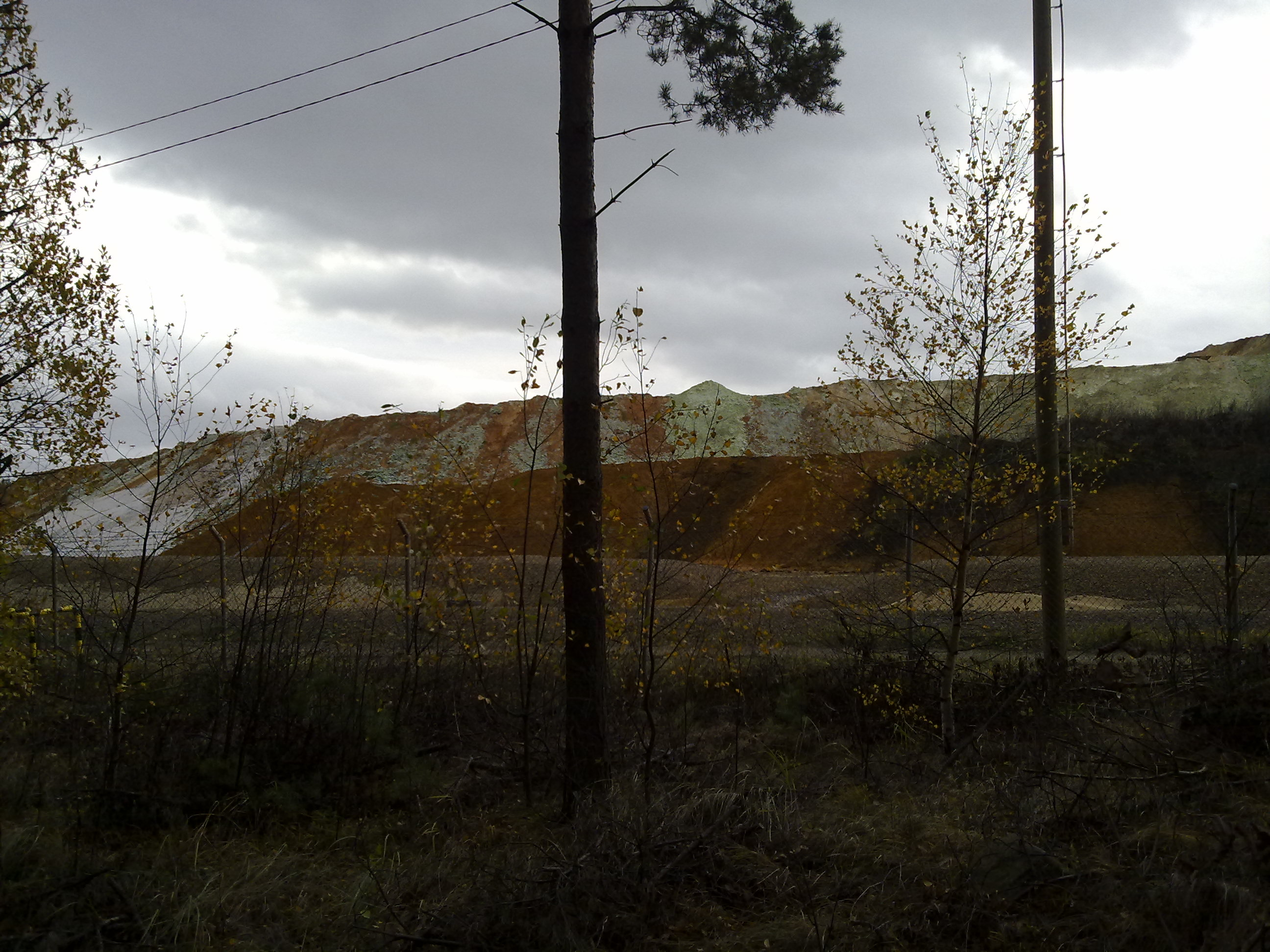 Ferrous sulfate outside titanium dioxide factory in Kaanaa, Pori.